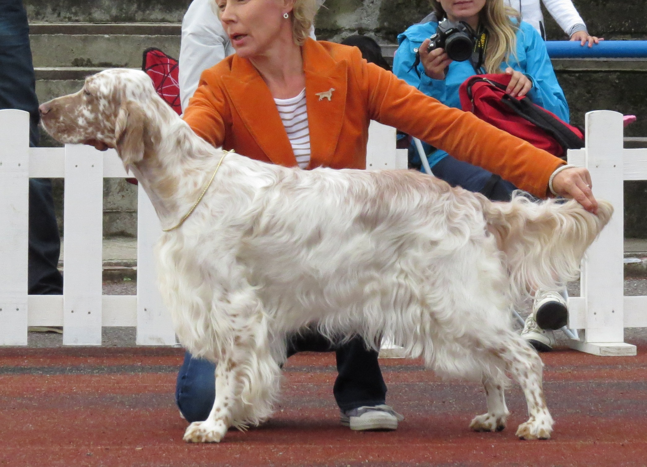 English Setter in Tallinn, duo CACIB, 17-18 Aug 2013